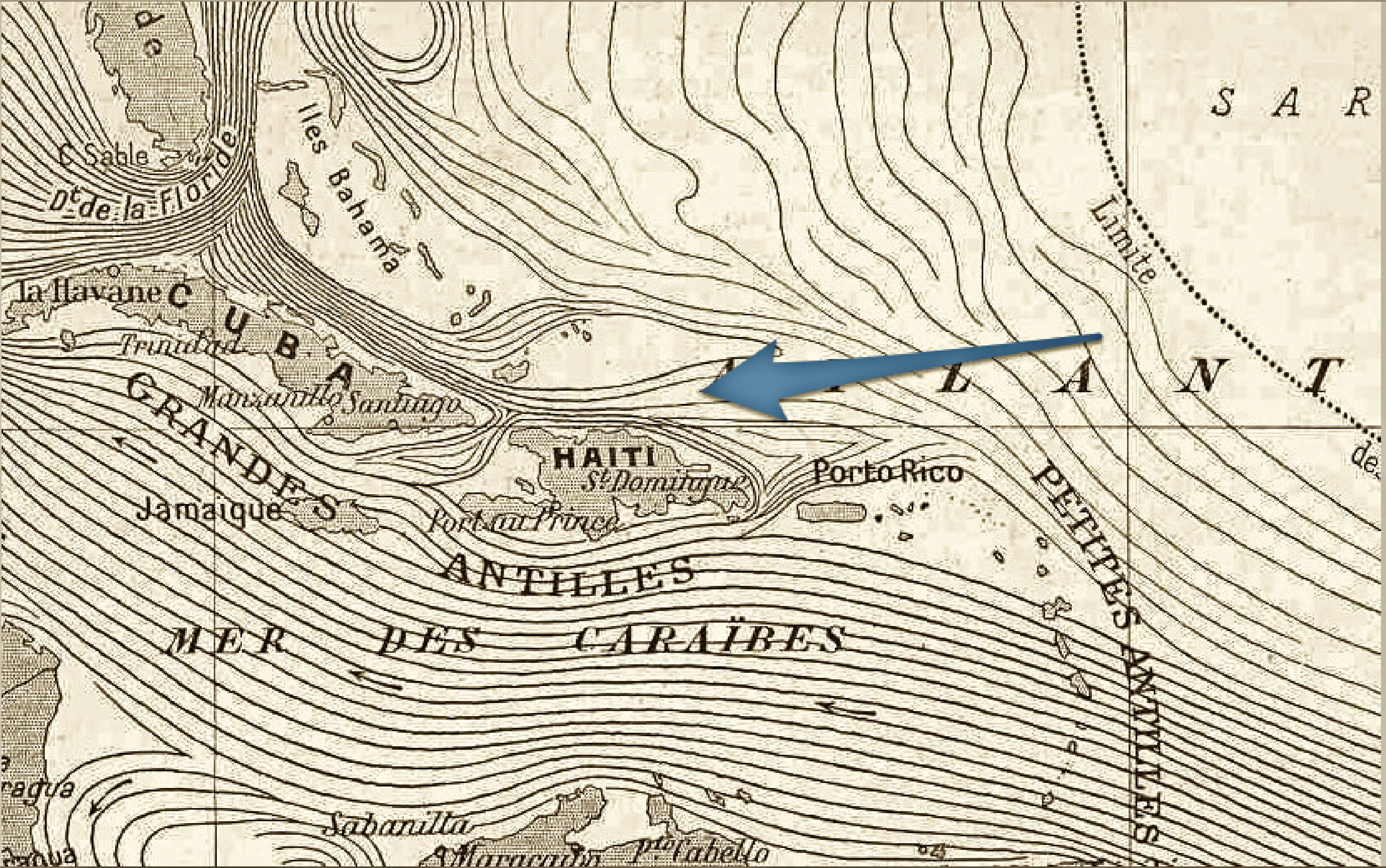 An arrow showing the Antilles Current. This is a modification of a map published in 1913: Clerc-Rampal, G. (1913) Mer : la Mer Dans la Nature, la Mer et l'Homme, Paris: Librairie Larousse, p. 42